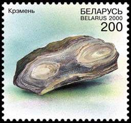 Stamp of Belarus